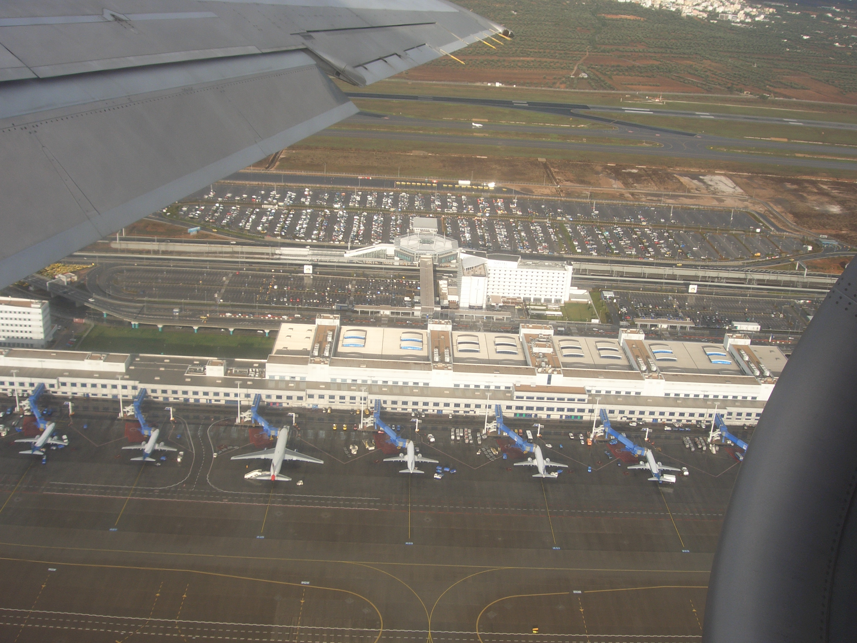 Athens Airport Photo:Christos Vittoratos